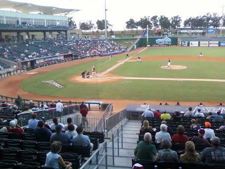 Arvest Ball Park 2010